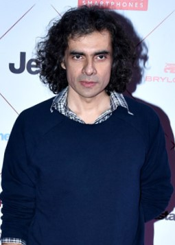 Imtiaz Ali graces the HT Style Awards 2018.